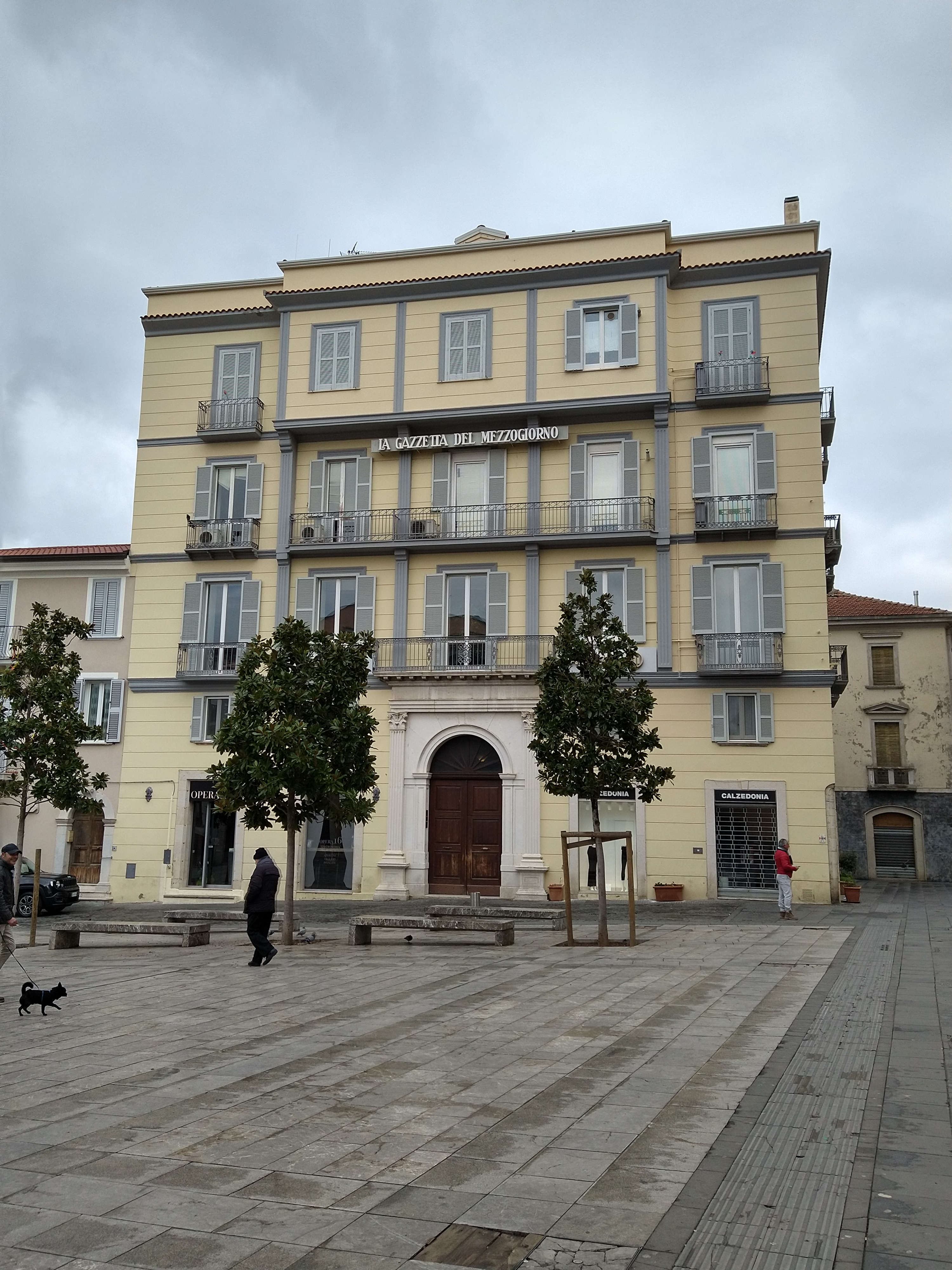 Local office of the newspaper "La Gazzetta del Mezzogiorno" in Potenza.